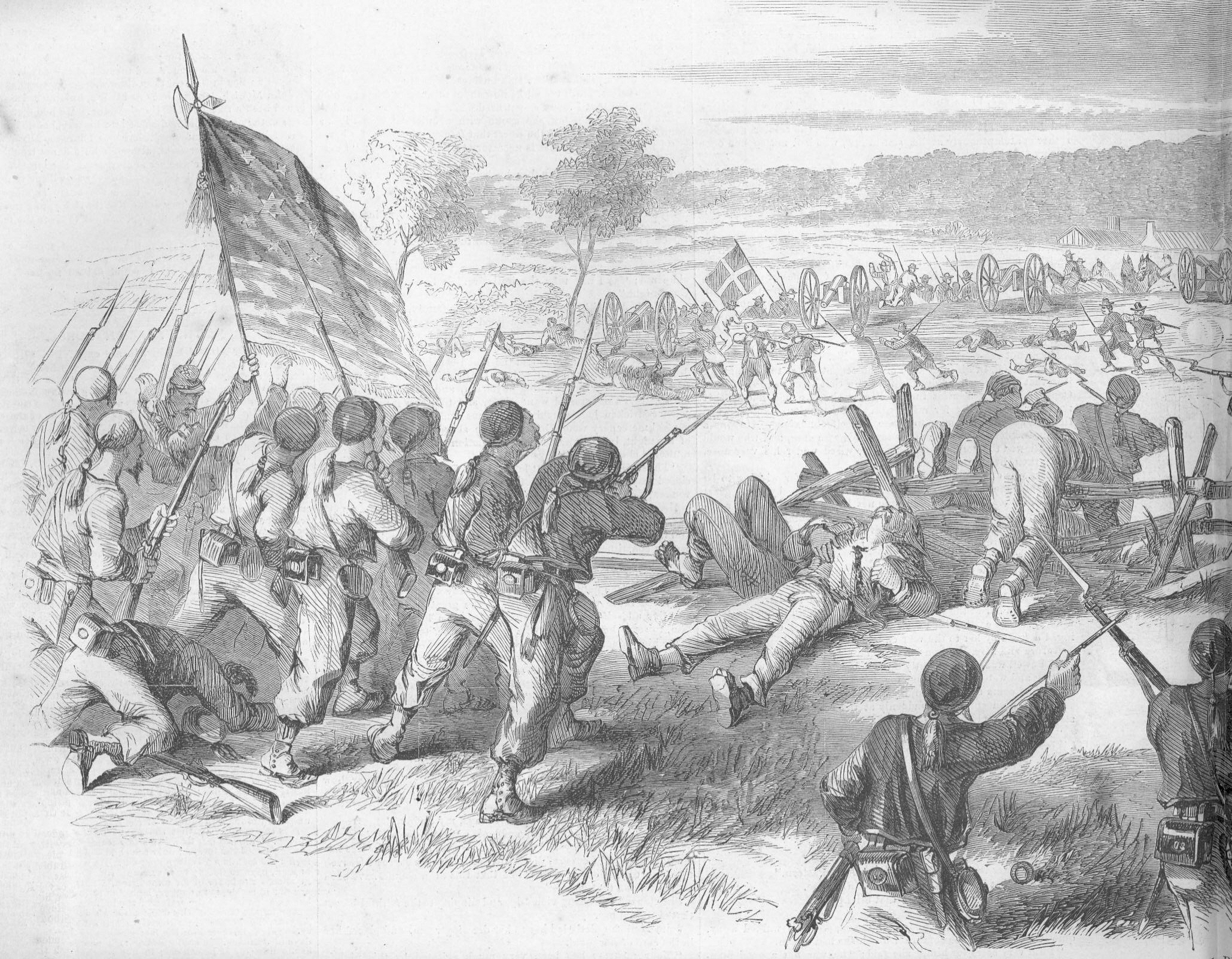 The 9th New York Infantry Regiment charging the Confederate right at Antietam.